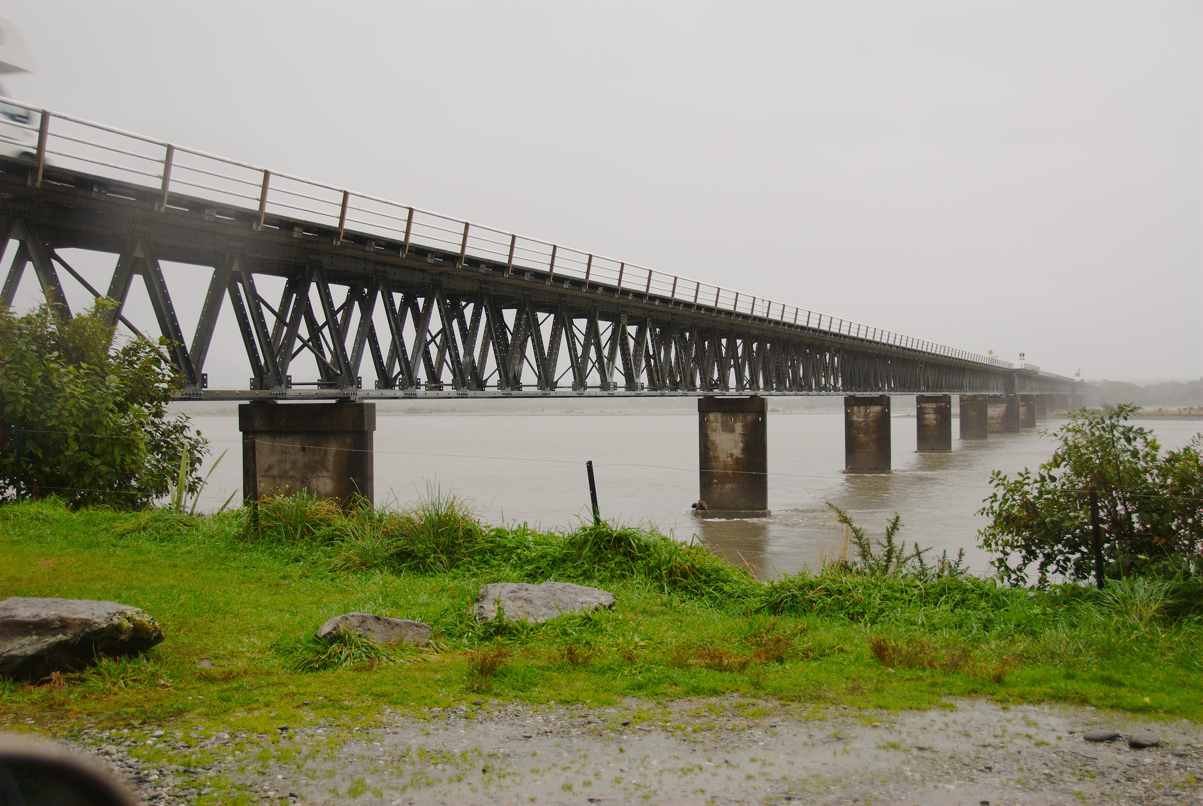 The bridge over the Haast River, north of the Haast township. At 737m it is the longest one-way road bridge in New Zealand, and the 7th longest New Zealand bridge overall.[1]